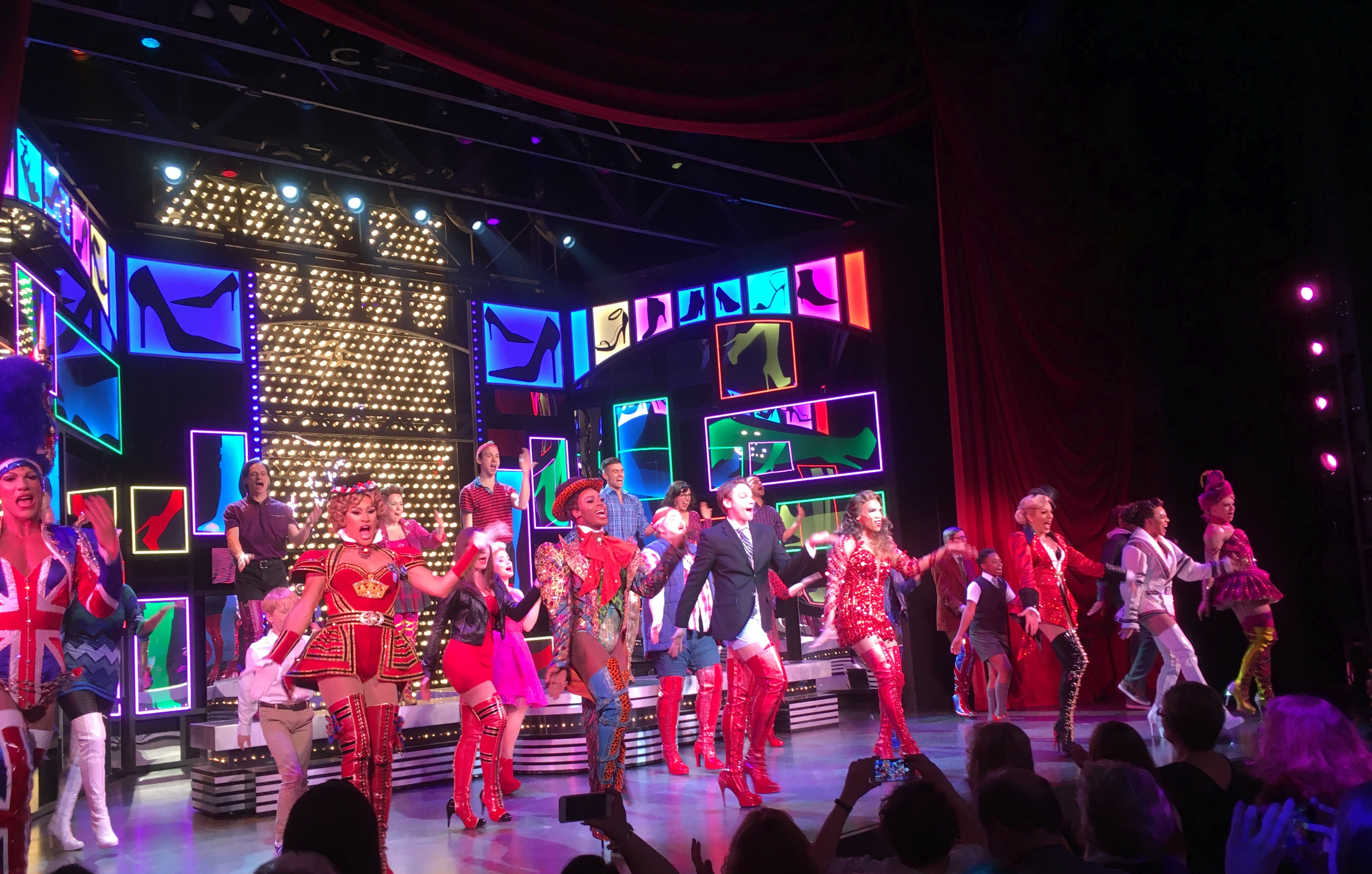 Musical "Kinky Boots" in Operettenhaus, Hamburg, Germany (May 2018) -- In the encore of the German show, taking pictures and publishing them in the net is officially allowed.